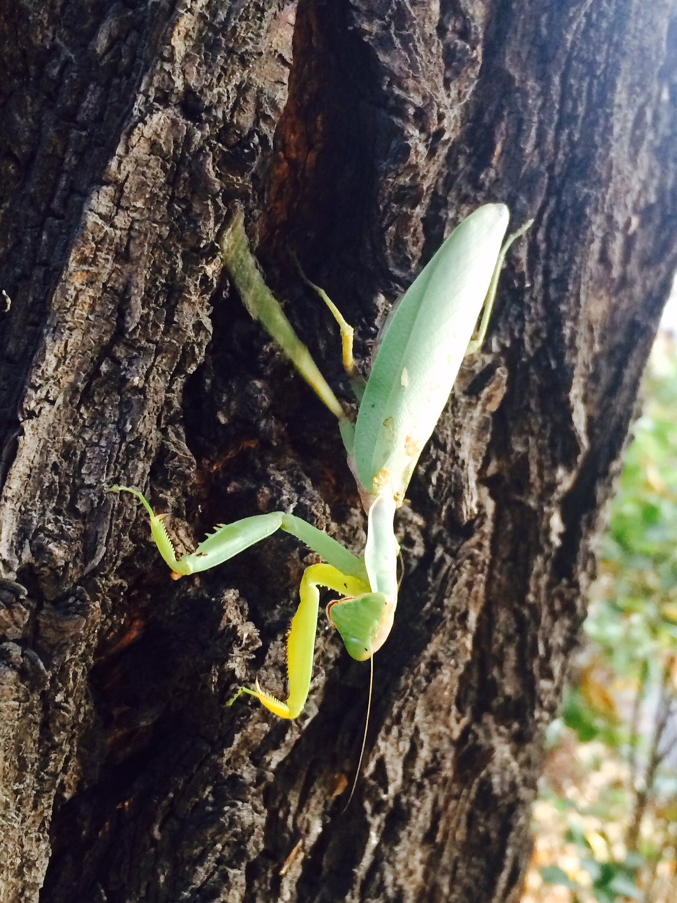 Mantis in Almaty park